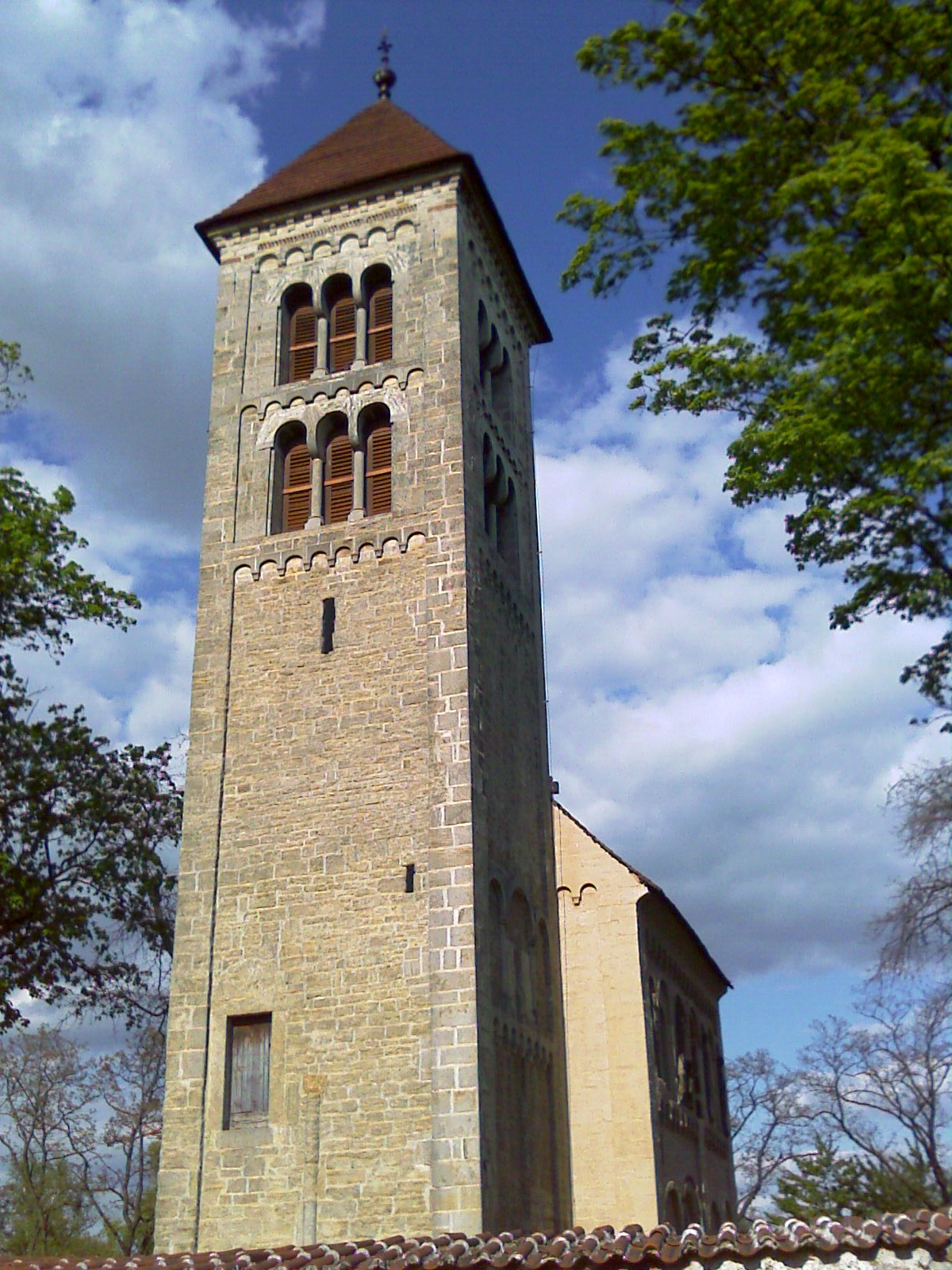 Church of St. Jacob, Cirkvice - Jakub, Czech Republic